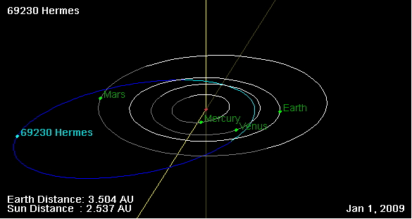 69230 Hermes orbit, and his position on 01 Jan 2009 (NASA Orbit Viewer applet)